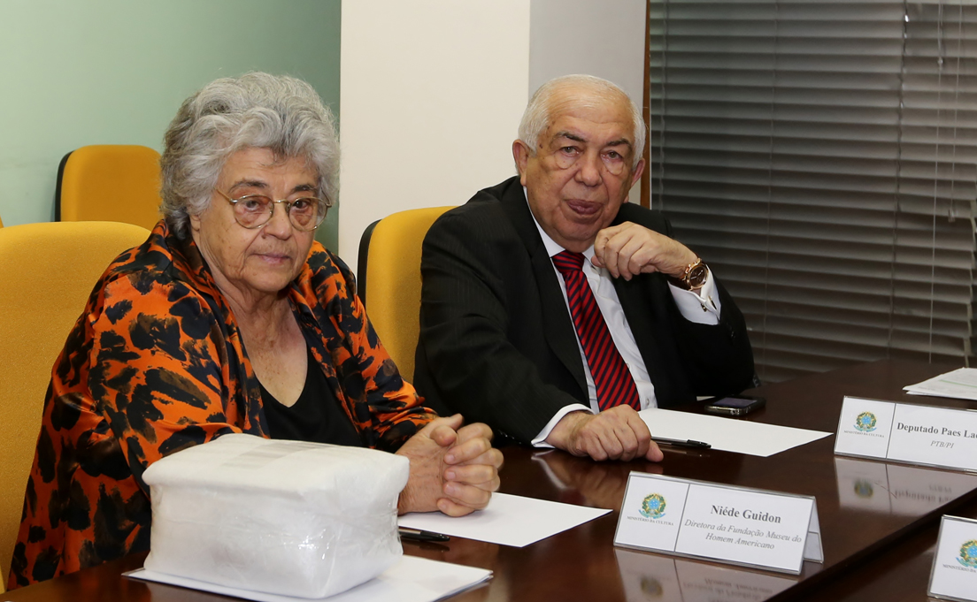 Reunião com a diretora da Fund. Museu do Homem Americano, Niède Guidon, e o deputado Paes Landim. A pauta era o Parque Nacional Serra da Capivara.